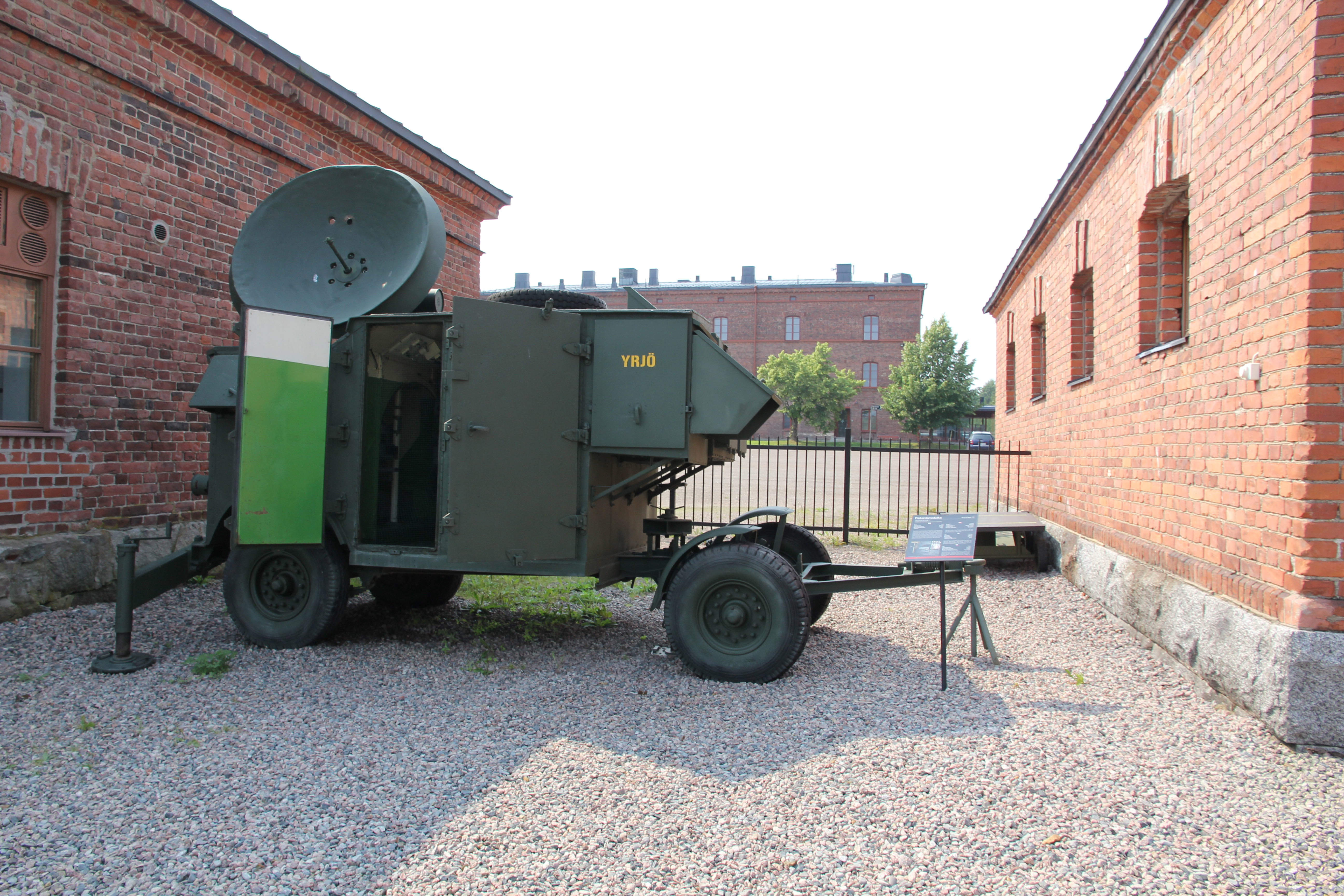 Yrjö counter-battery radar in Hämeenlinna artillery museum. Originally a British anti-aircraft locating radar No 3 Mk 7 F, modified into counter-battery radar in Finland during 1960s.